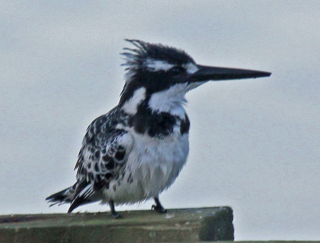 Female Pied Kingfisher (Ceryle rudis) in St. Lucia, South Africa